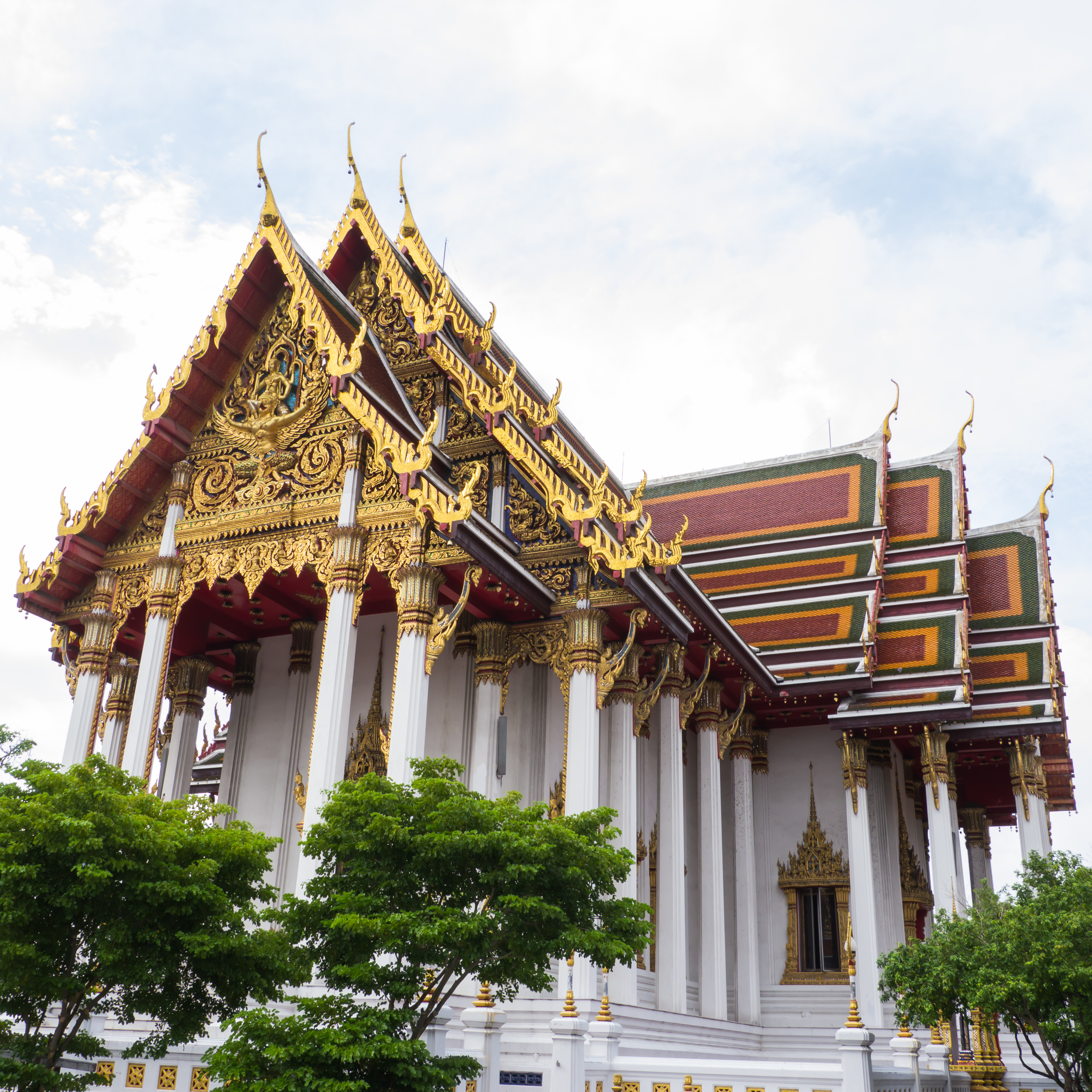 วัดราชบุรณราชวรวิหาร